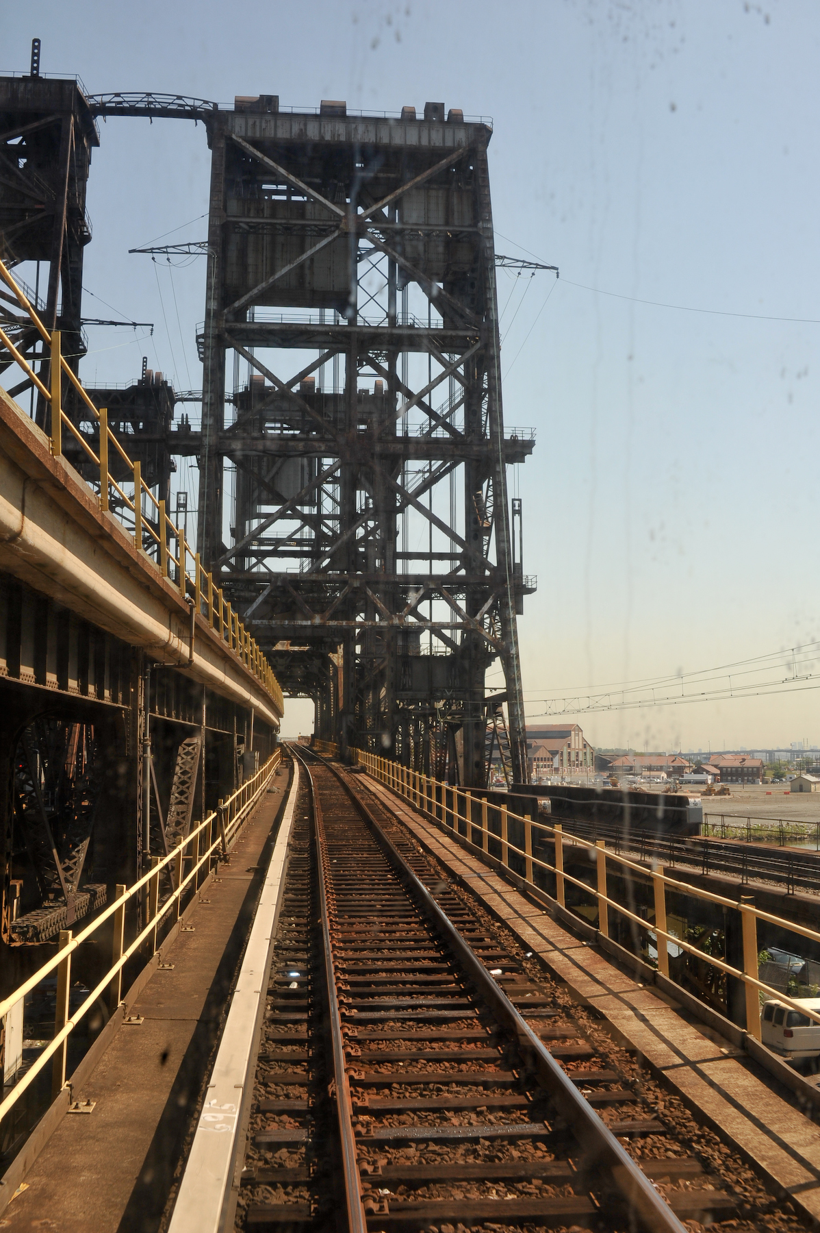 Sights, sounds, and perhaps not the smells of NYC.